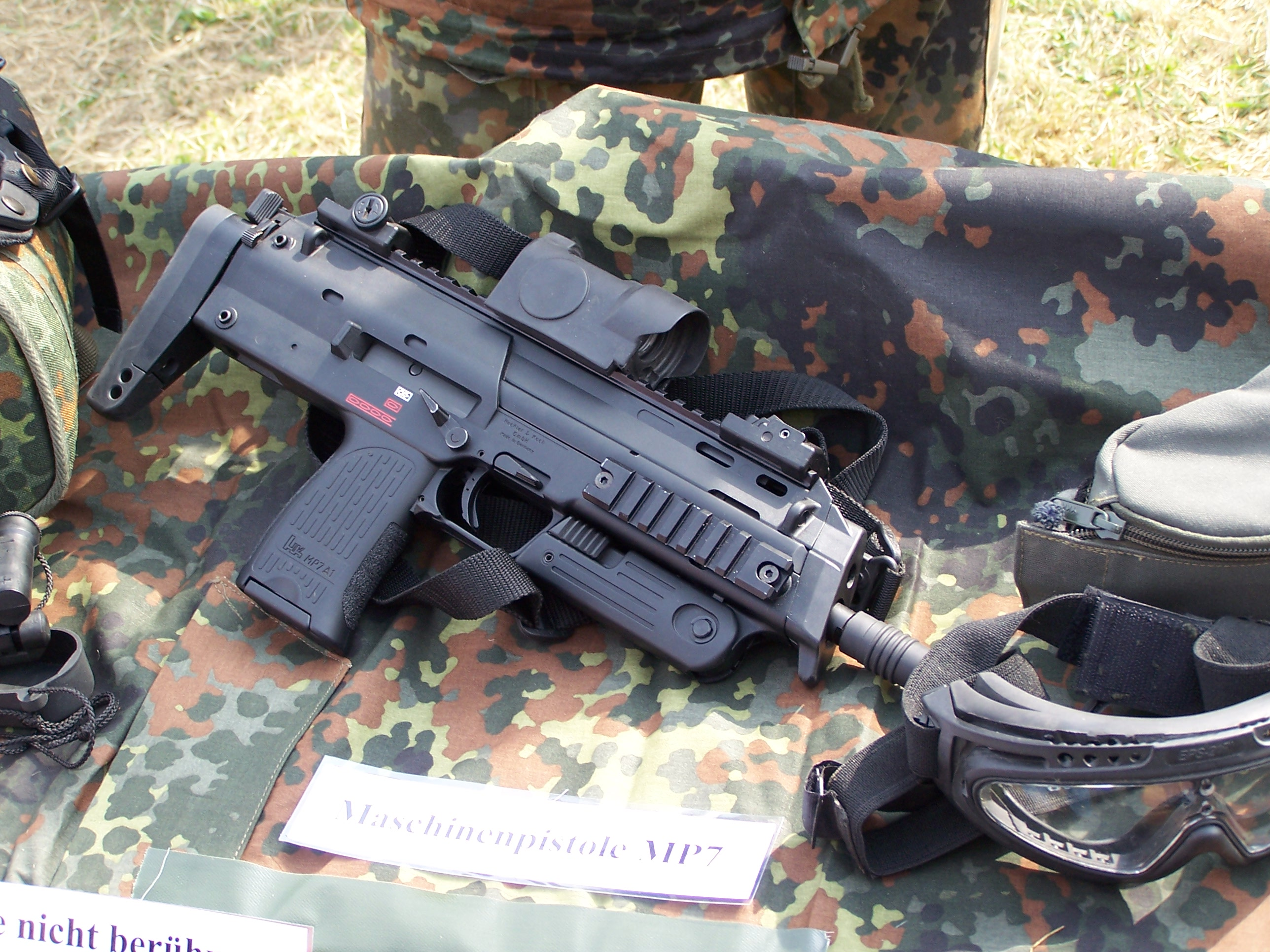 An MP7A1